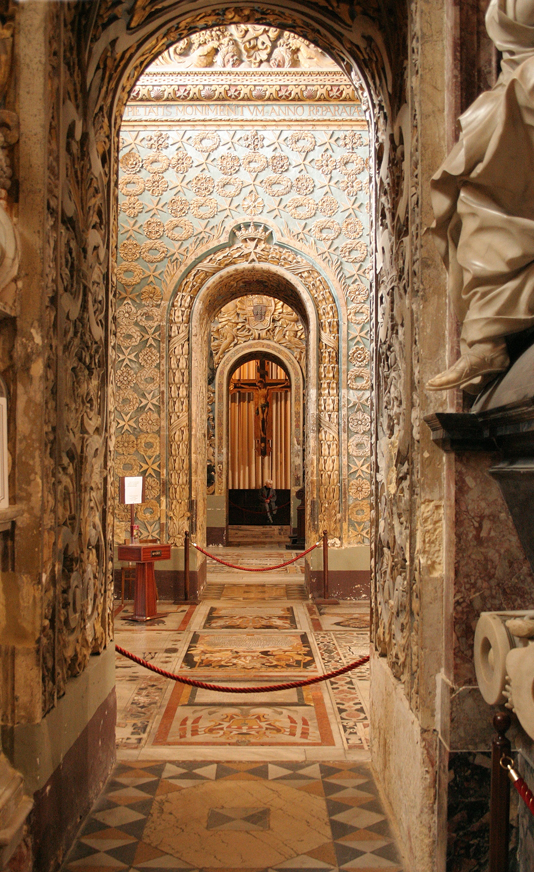 Malta, Valletta, St. John's Co-Cathedral, detail with side chapel (?)